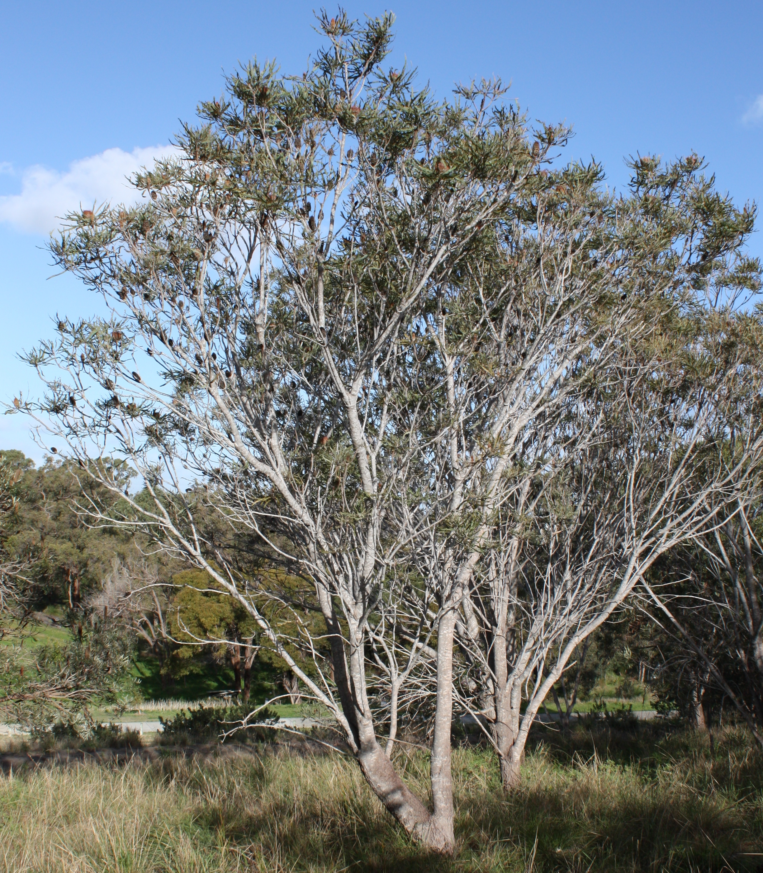 Banksia prionotes trees.